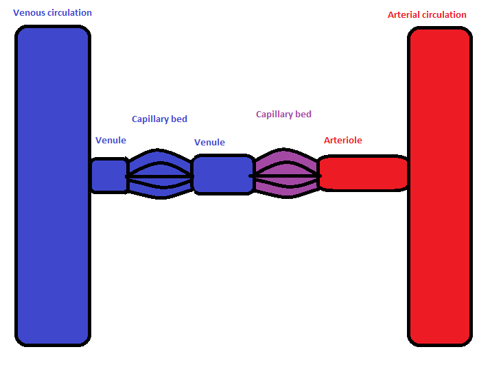 General diagram of a portal venous system